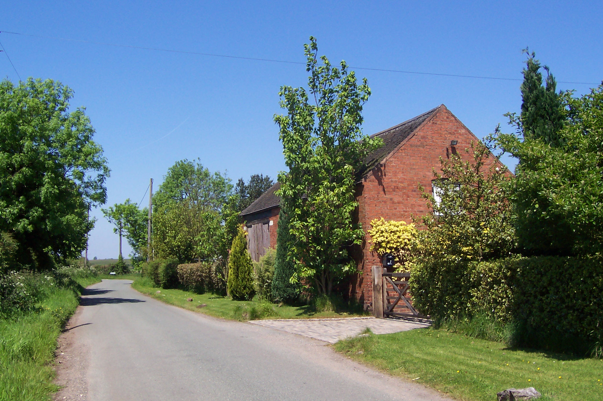 A view of Lower Stonnall, Staffordsire.